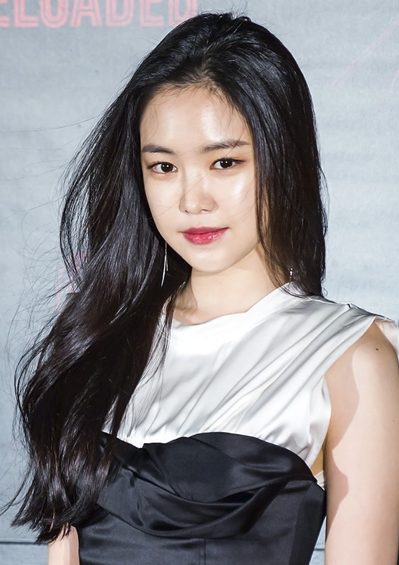 Son Na-eun at Volkswagen photo wall at Dongdaemun Design Plaza, 18 April 2018